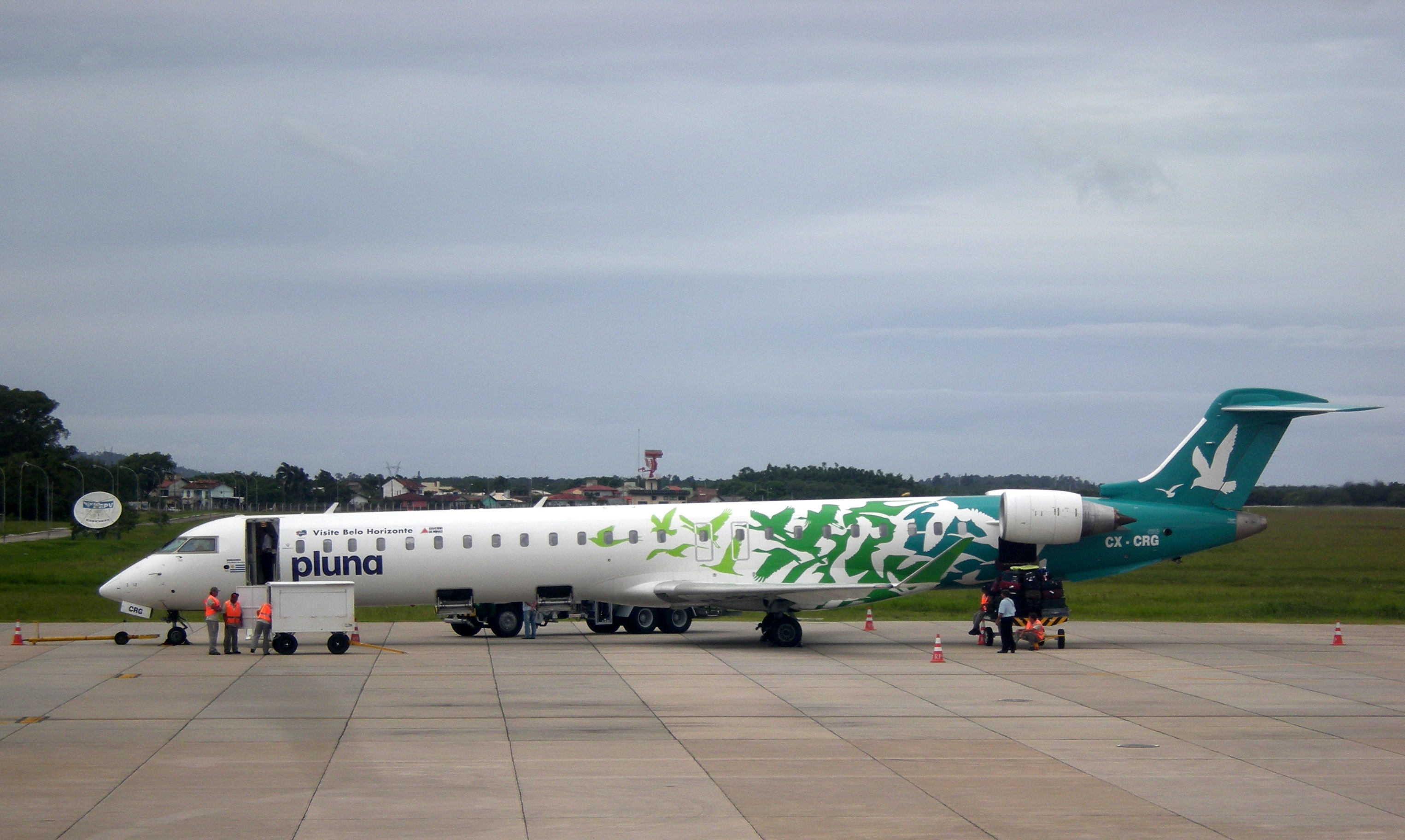 Florianópolis (FLN) Airport.